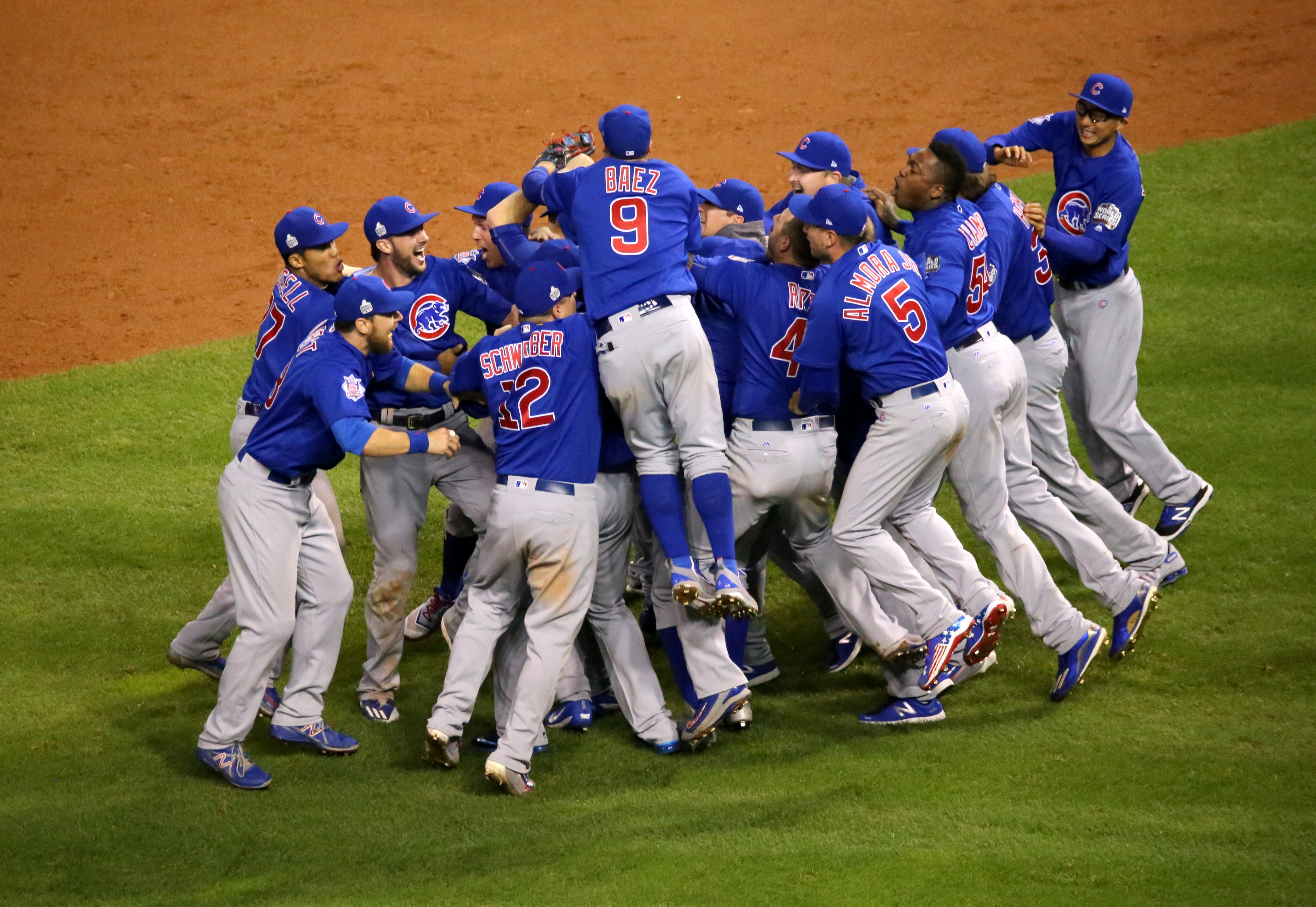 The Cubs celebrate after winning the 2016 World Series.